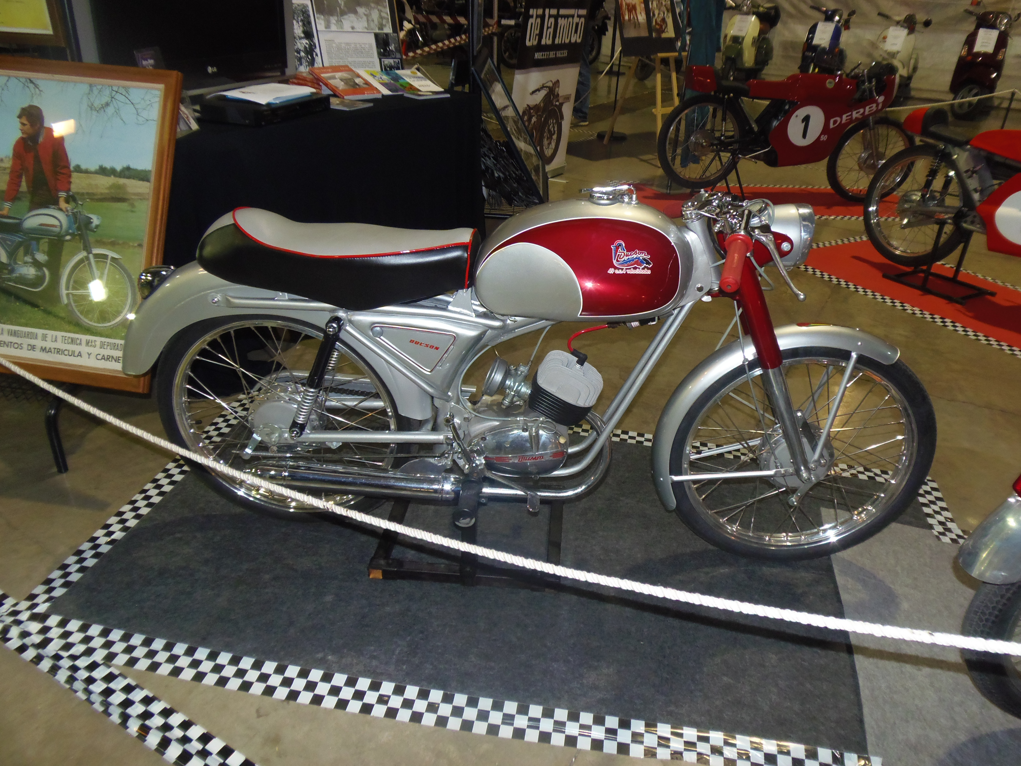 Ducson moped 49cc "4 velocidades" (around 1962).